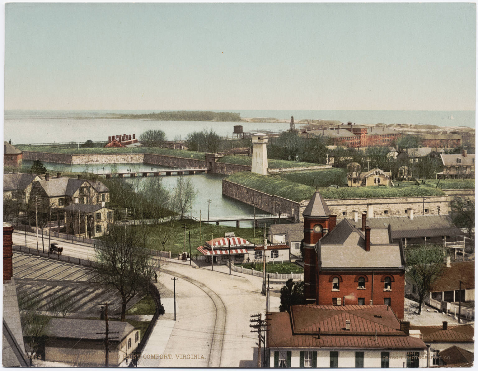 A photochrom postcard published by the Detroit Photographic Company.